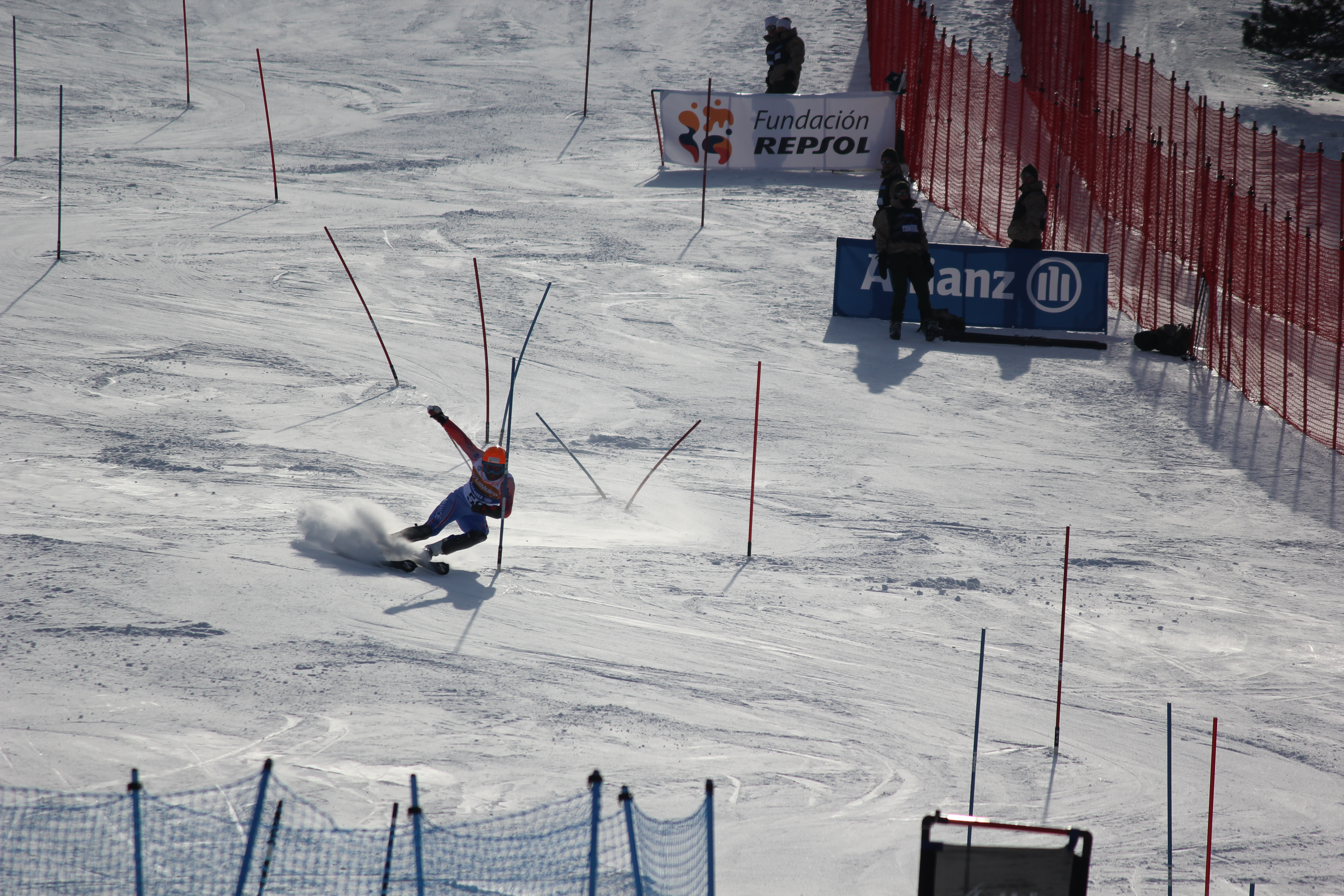 2013 IPC Alpine World Championships at La Molina in Spain. Day 3 of competition. Slalom final. Vincent Gauthier-Manuel of France